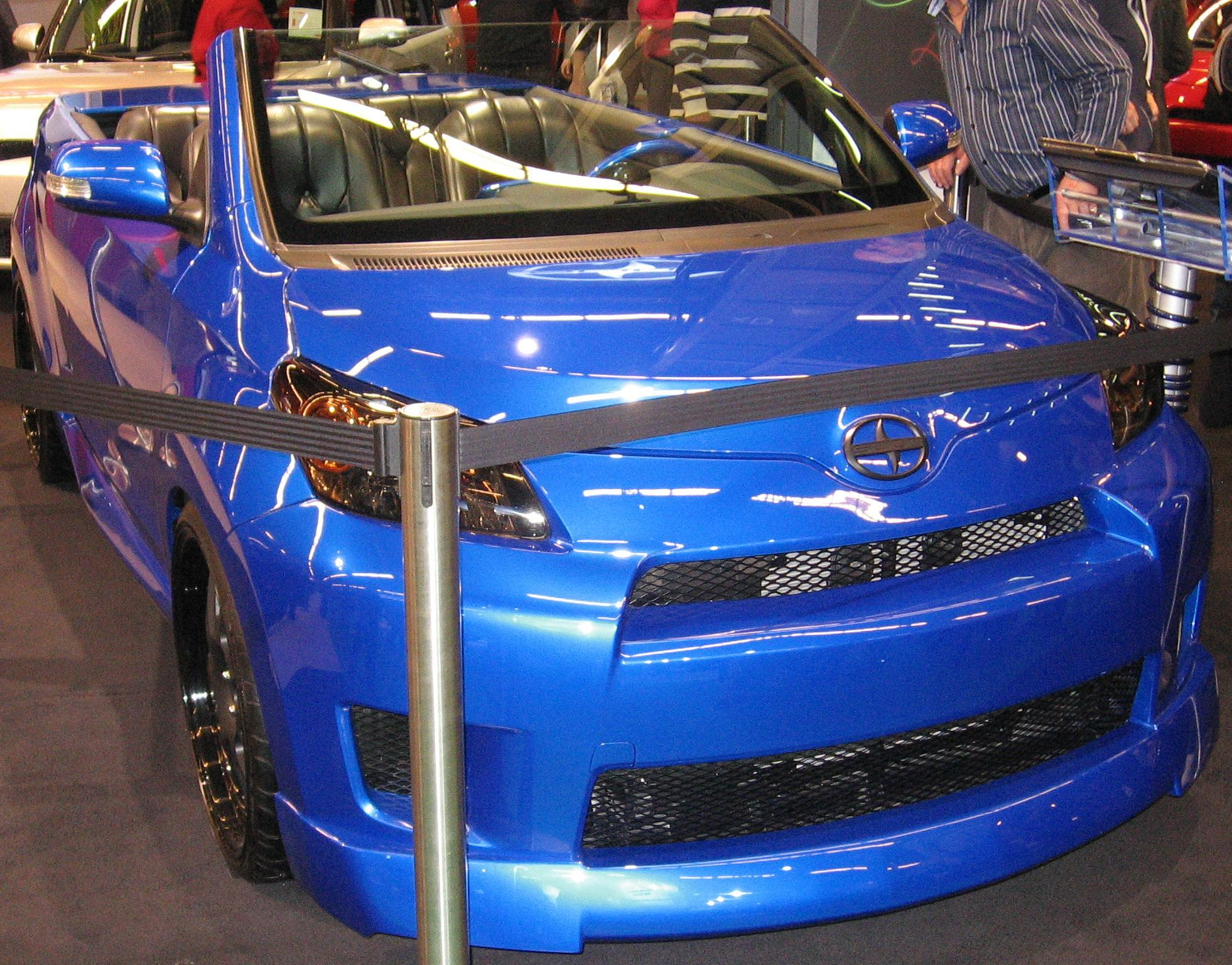 Scion xD convertible concept photographed in Montreal, Quebec, Canada at the 2011 Montreal International Auto Show.